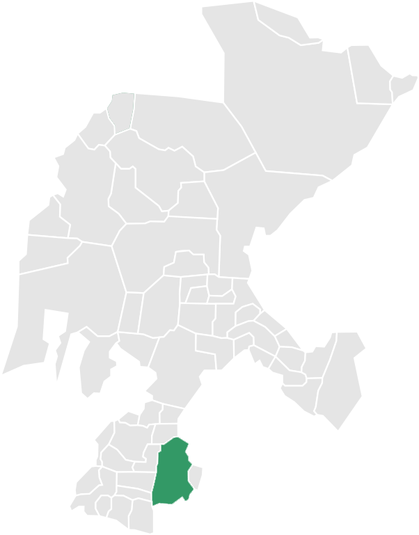 Map of the Municipality of Nochistlán in Zacatecas, México.